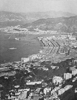 The coastline of Wan Chai in the early 1960s. Permission given from the original owner: [1]